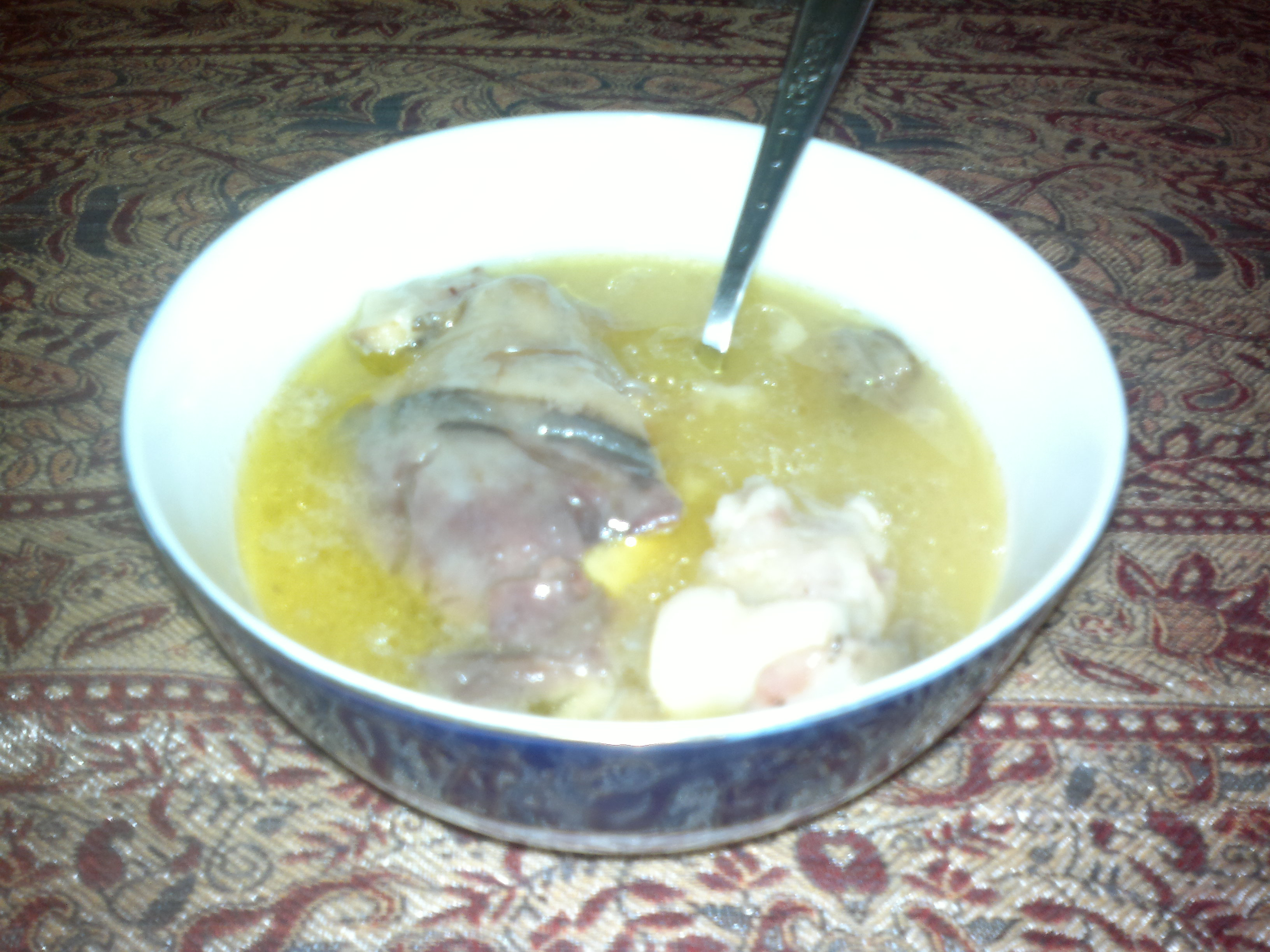 Azerbaijani khash